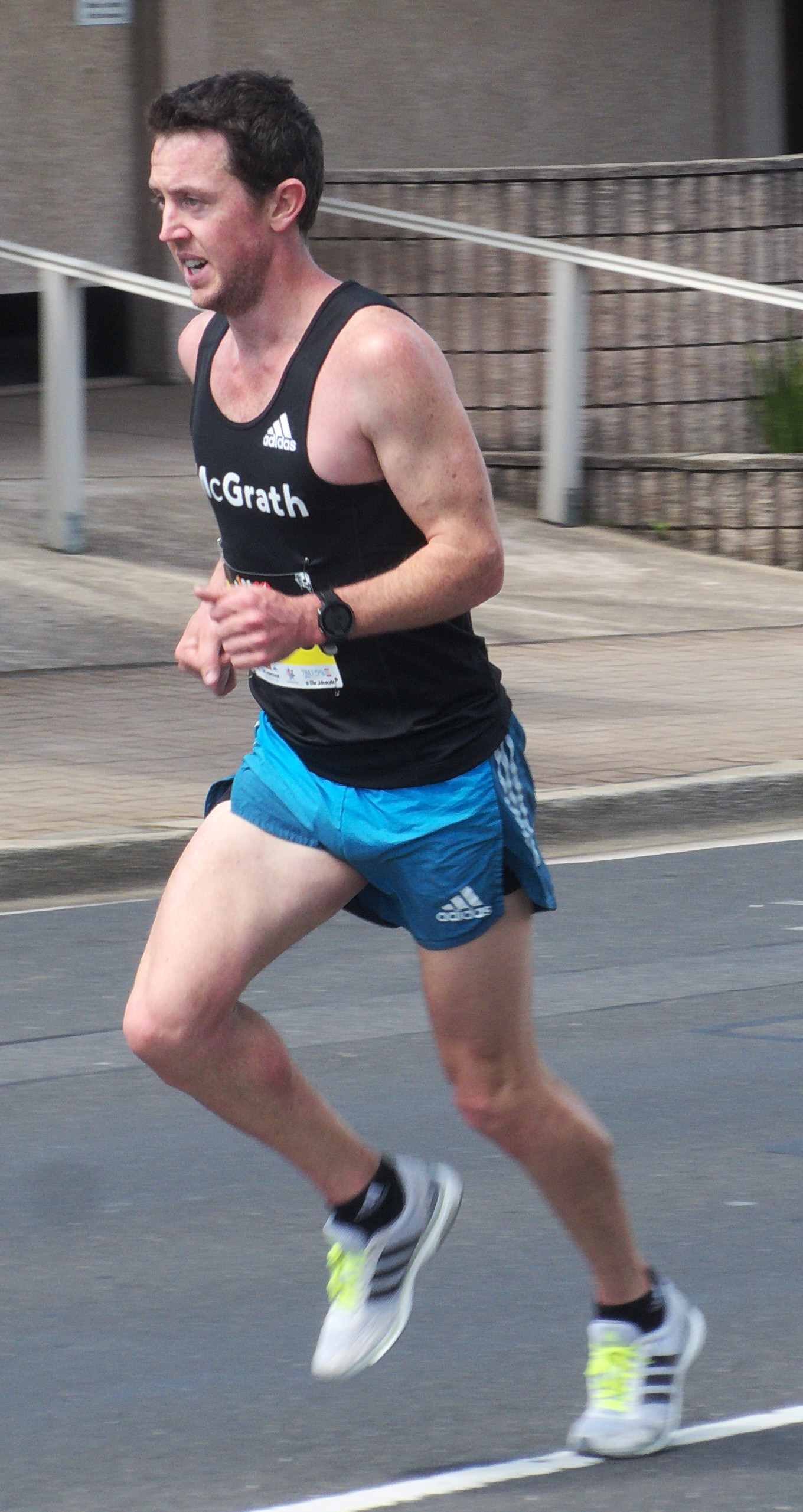 Liam Adams finishing 5th in the 2017 Burnie Ten.